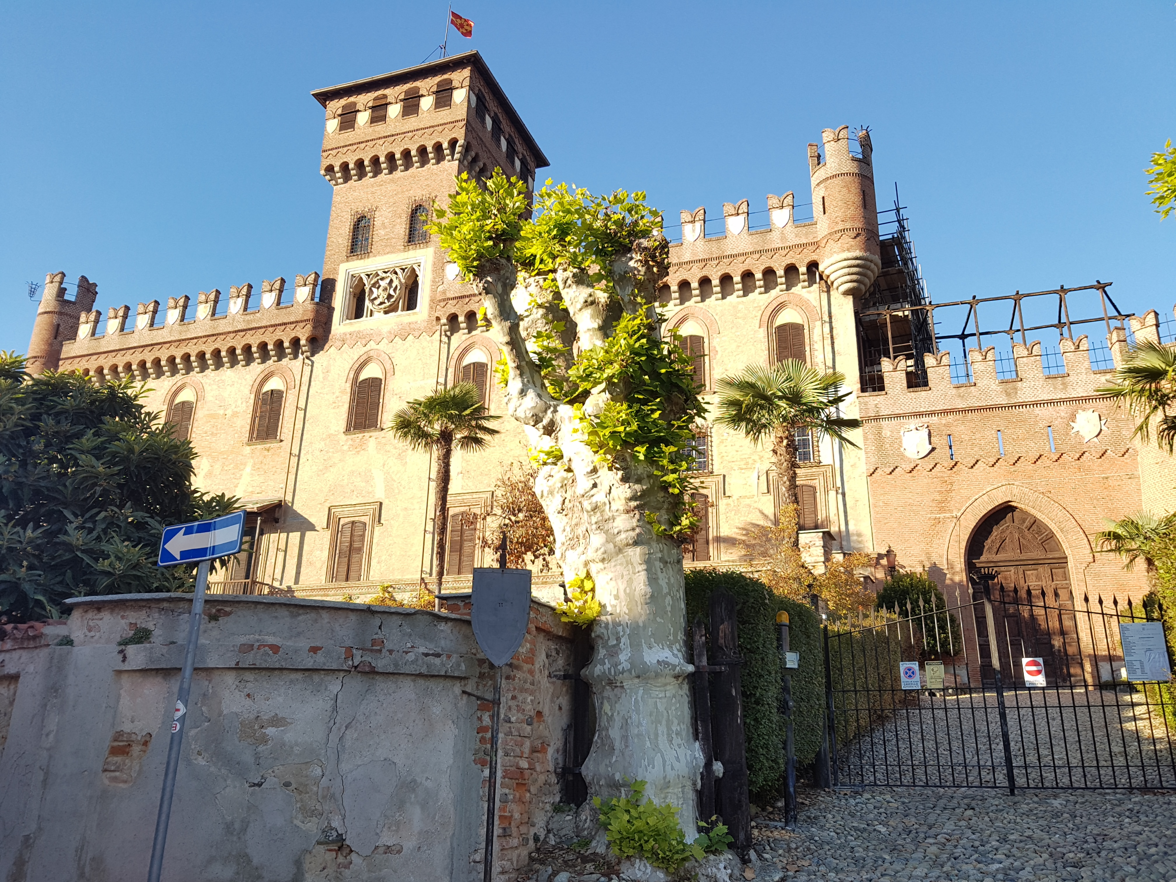 Mazzè Castle, Piedmont, Northern Italy